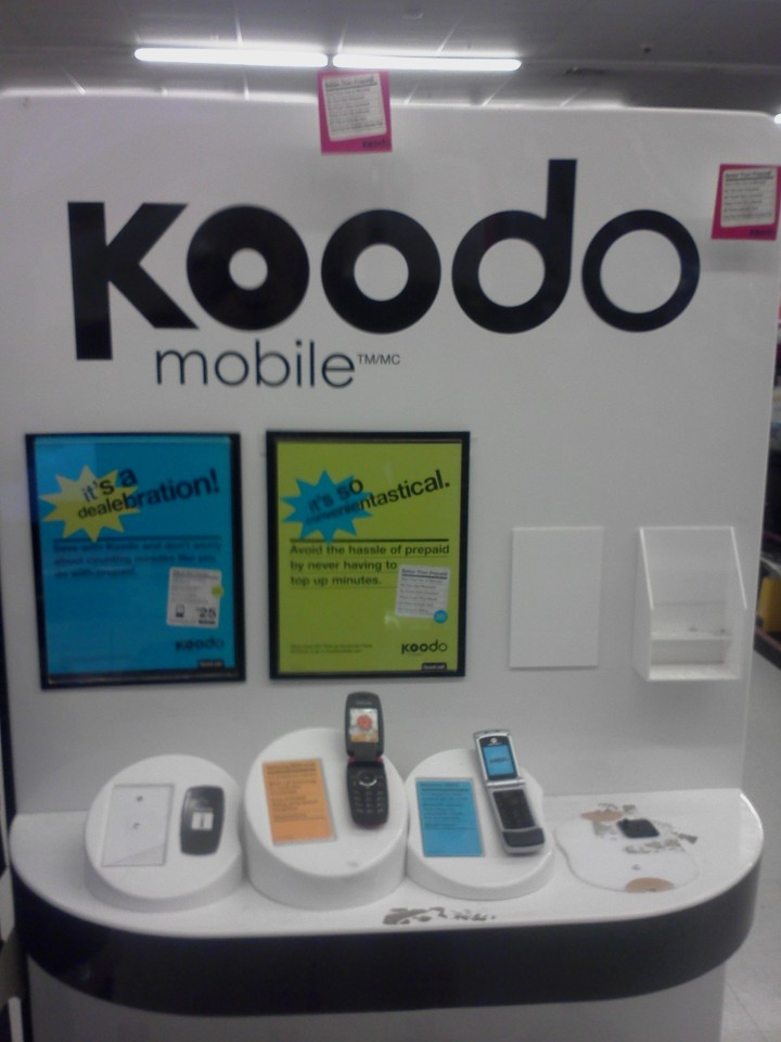 This is a Koodo Mobile booth found at a Zellers store on Saturday, December 17, 2011.